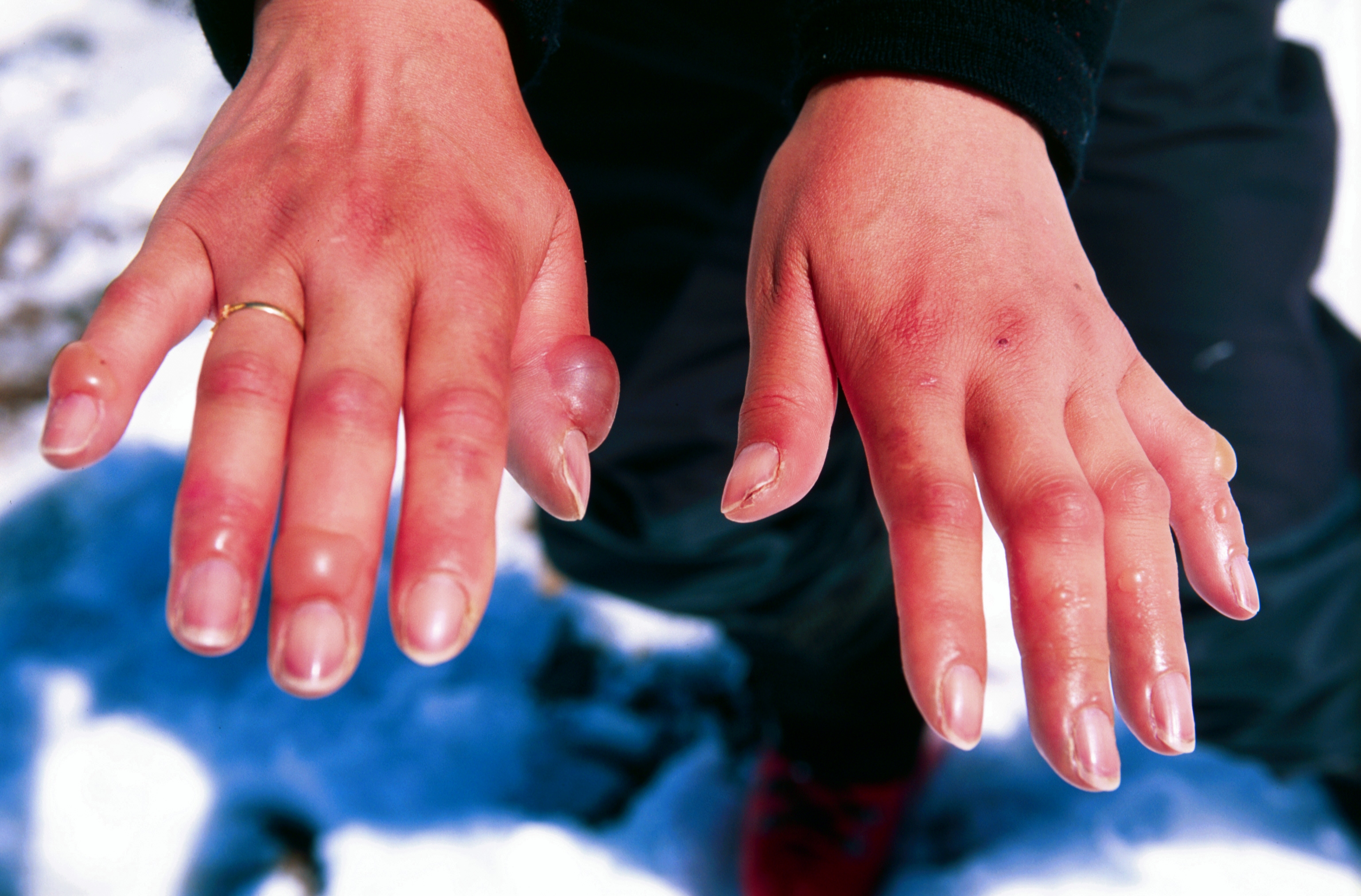 Frostbitten handsmarg's fingers after the descent of aconcagua